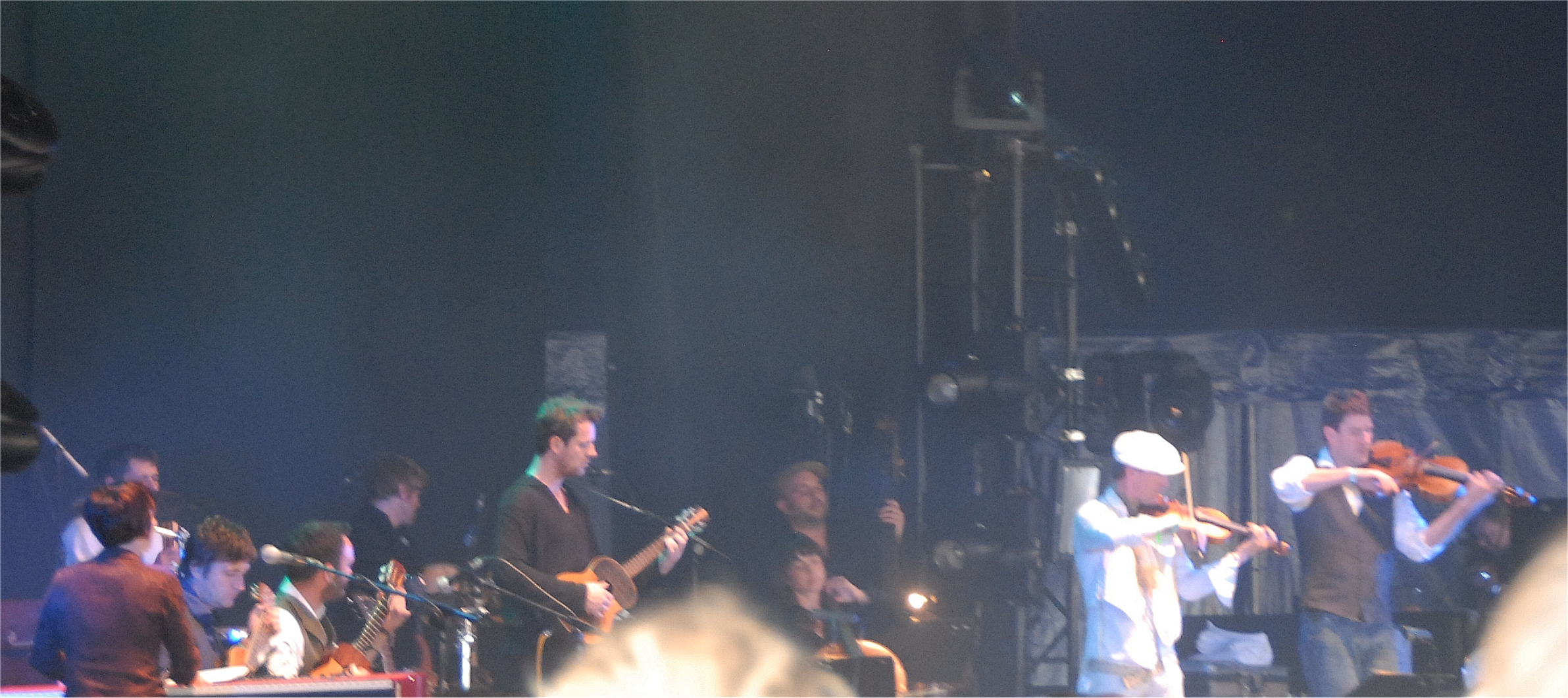 Penguin Cafe at WOMAD 2011